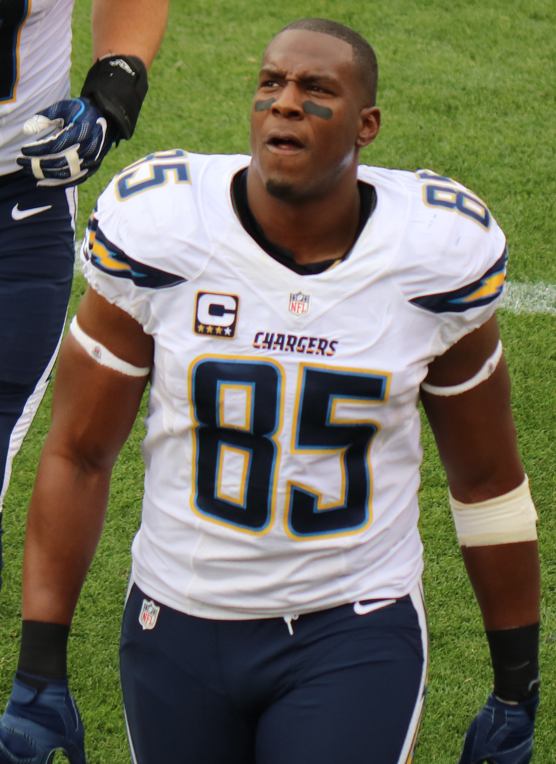 Antonio Gates, a player on the National Football League.